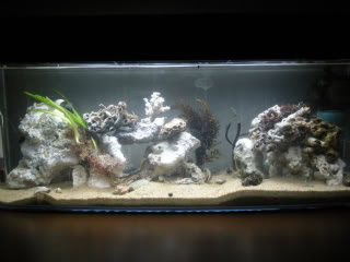 A newly set up Temperate Reef